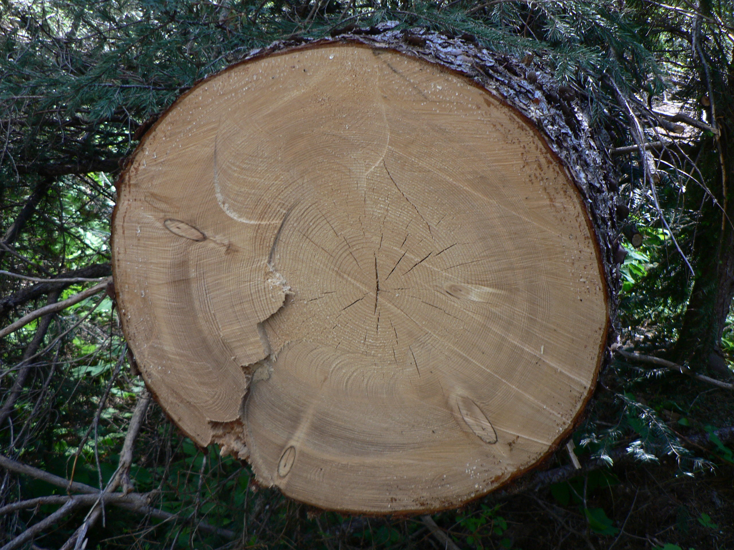 Engelmann Spruce